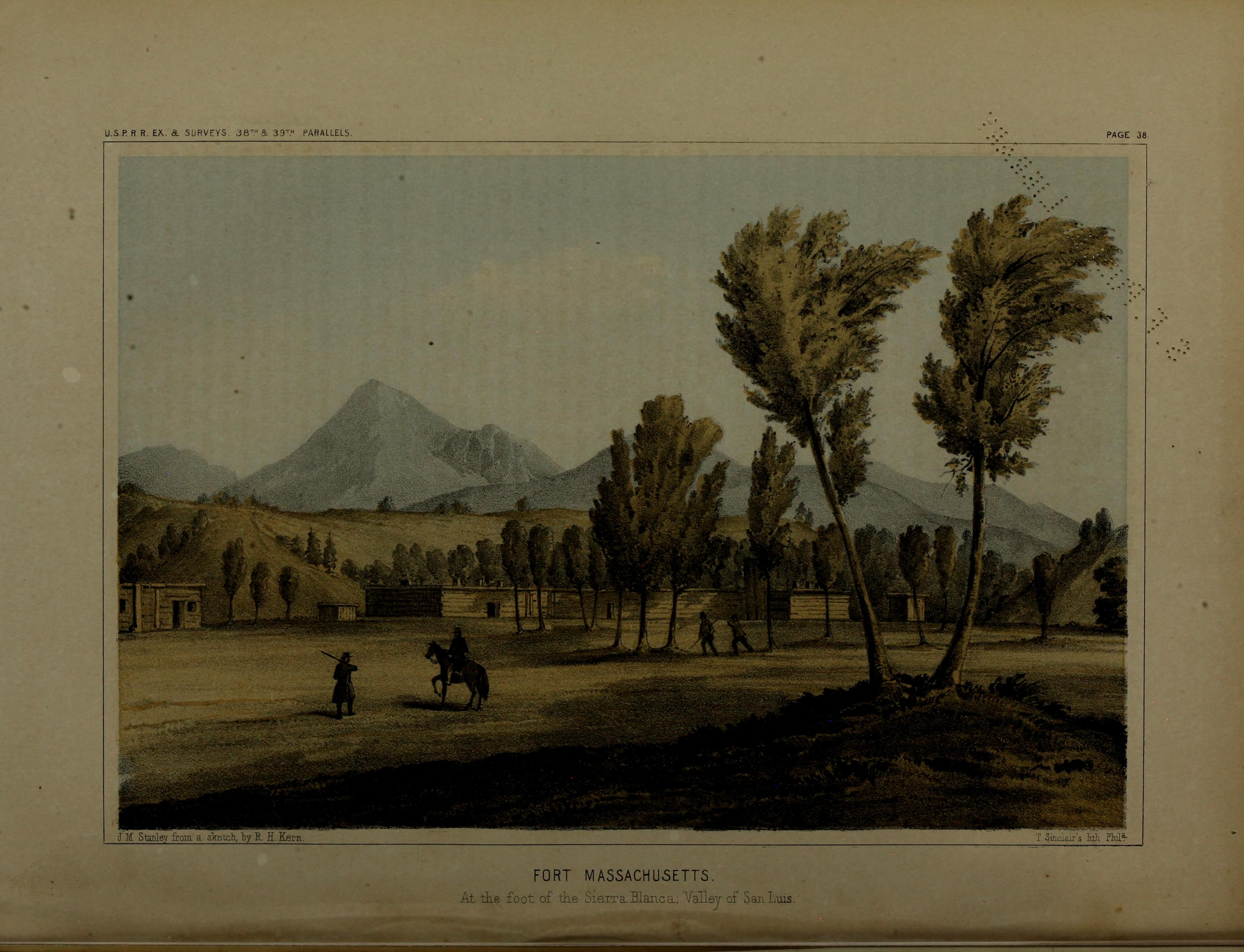 Title: Reports of explorations and surveys, to ascertain the most practicable and economical route for a railroad from the Mississippi River to the Pacific Ocean Year: 1855 (1850s) Authors: United States. War Dept Henry, Joseph, 1797-1878 Baird, Spencer Fullerton, 1823-1887 United States. Army. Corps of Engineers Subjects: Pacific railroads Discoveries in geography Natural history Indians of North America Publisher: Washington : A.O.P. Nicholson, printer (etc.) Text Appearing Before Image: ' Text Appearing After Image: SNOW IN THE PASS. 39 of the guide, who had represented this route as without a hill, the party ascended a high peakand looked down upon the extensive plains, over which, for a month, we had wound our way.The view was majestically beautiful, with the Huerfano, Cuchara and Apishpa at their feet,and towering mountains to the north and south, with the valley of San Luis to the west. De-scending again to the stream they had left, and finding that about ten miles from its head theywere, by barometer, higher than on the Sangre de Cristo Pass, and that the gorge was very wind-ing and narrow, they turned back from their southern course for two miles, and then rode up hillfor two hours, much of the way steep and stony, and arrived at the summit of the ridge, whereone could look almost vertically down on the heads of creeks of the Cuchara—one of whichwinds under Bald mountain, considerably to the south of the Spanish Peaks, where there is a notinviting depression, entirely impracticable for a